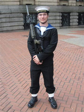 A Royal Naval Reservist from HMS Forward in number one dress uniform, with rifle, gaiters, belt, etc.